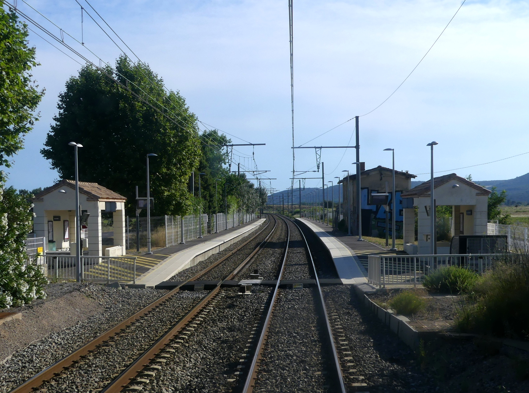 Sight of Vic-Mireval railway station, between Montpellier and Sète, in Hérault, France.